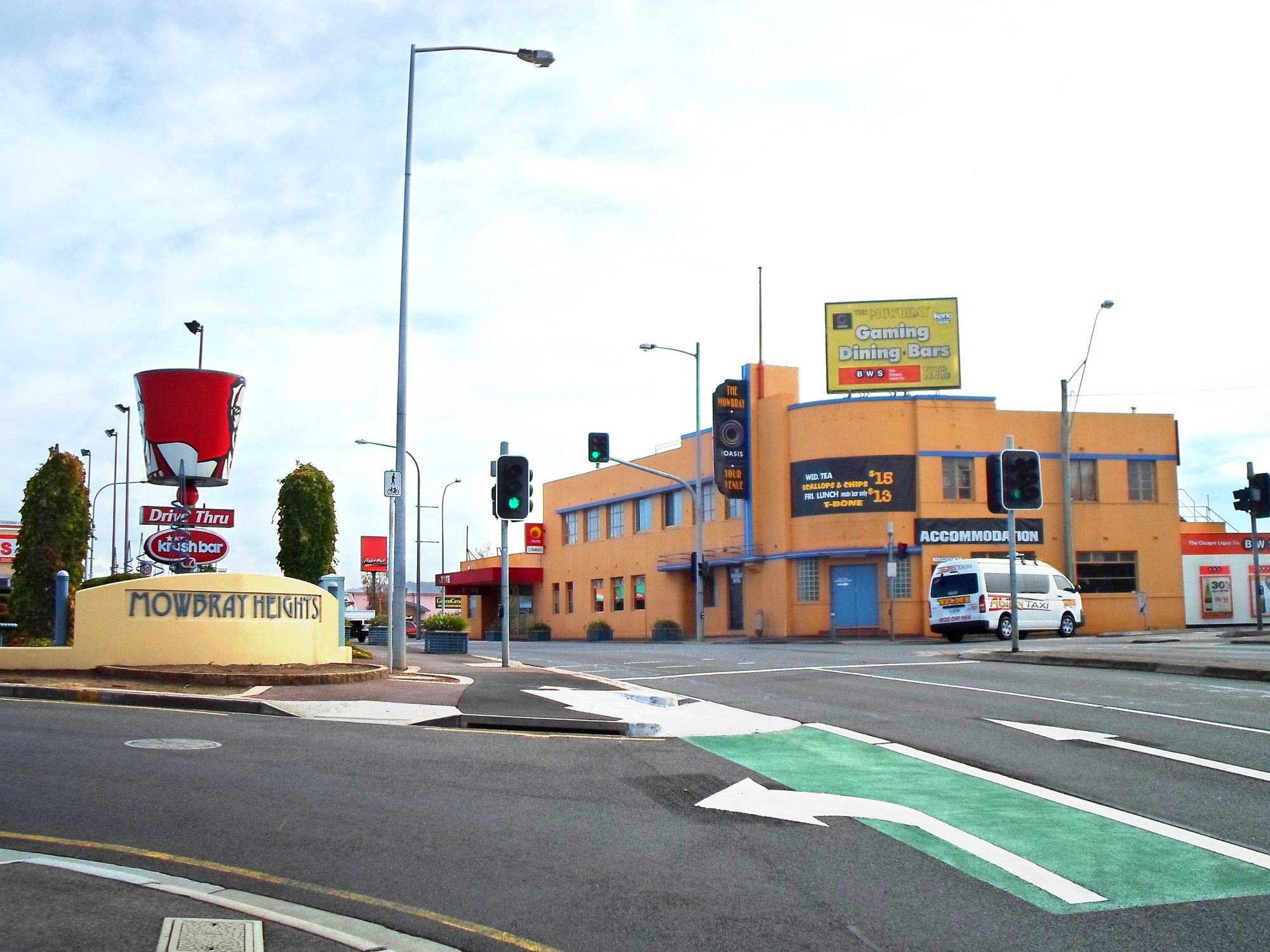 Top of Mowbray Hill on Invermay Road with the Mowbray Hotel and KFC store, Mowbray, Tasmania